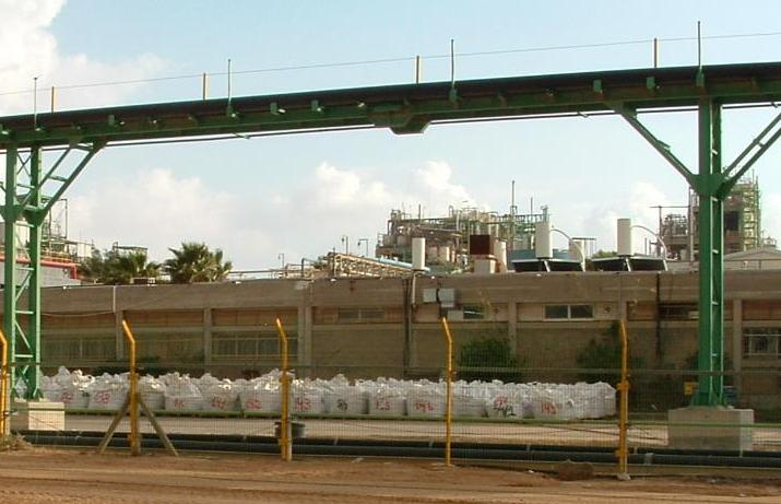 An industrial conveyor, a long one. Below we see a cluster of many white bags.